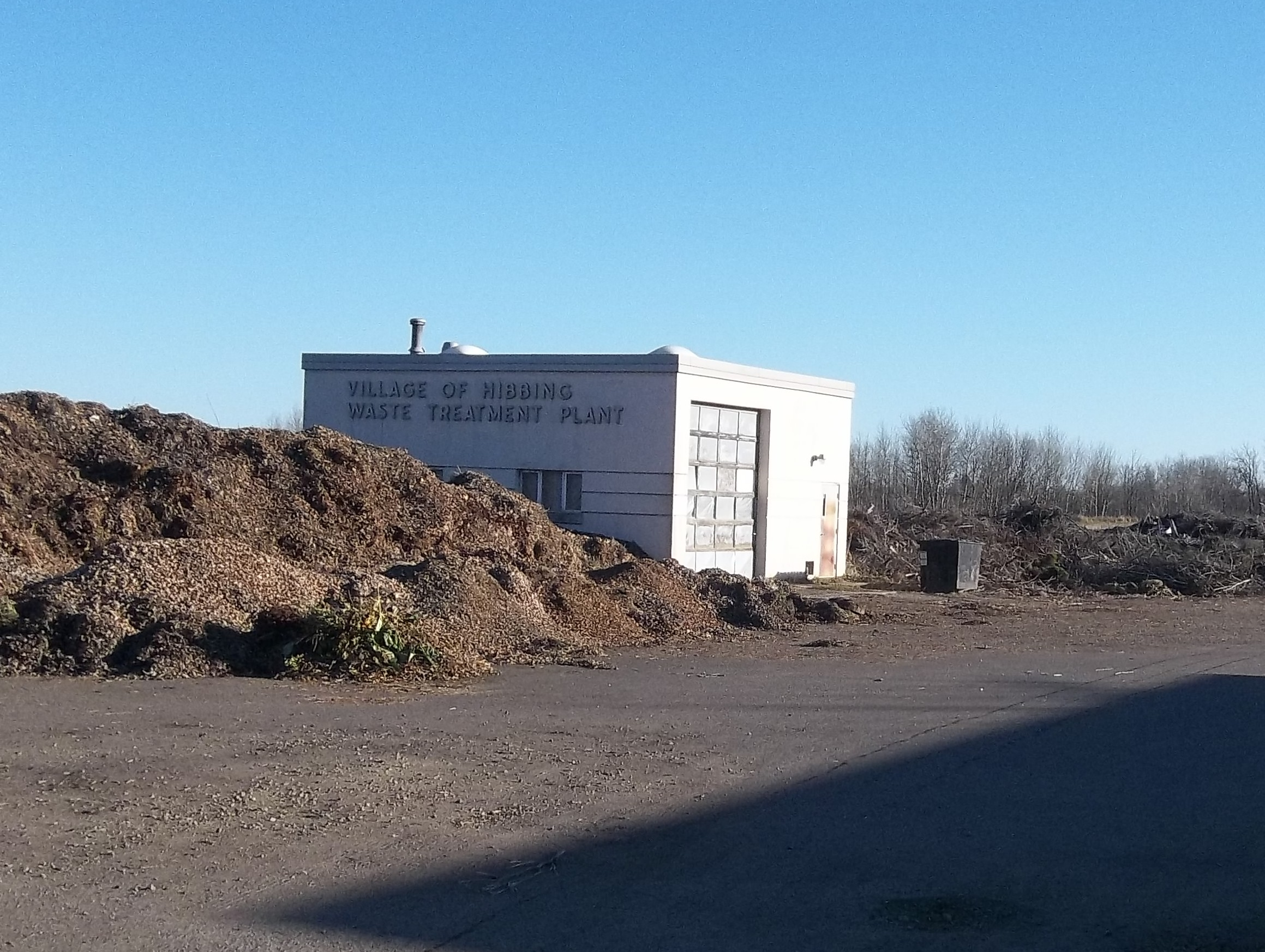 Hibbing Disposal Plant. View is of the 1970 "grit house", a non-contributing property to the district